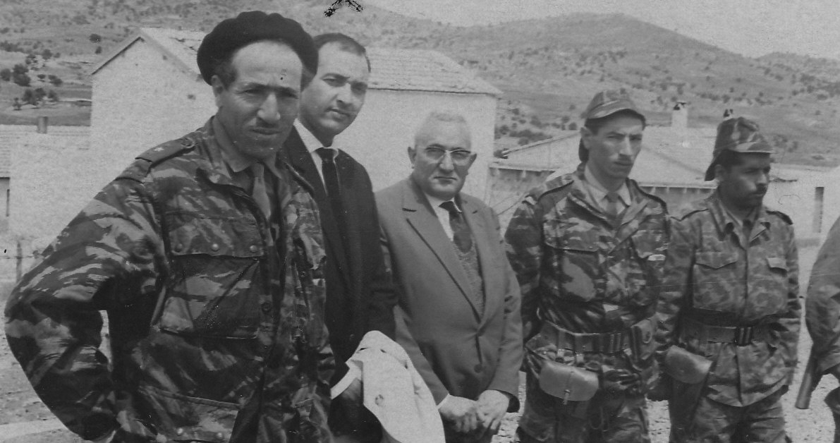 Tahar Zbiri, Khelladi Nouredine et des officiers Aurès